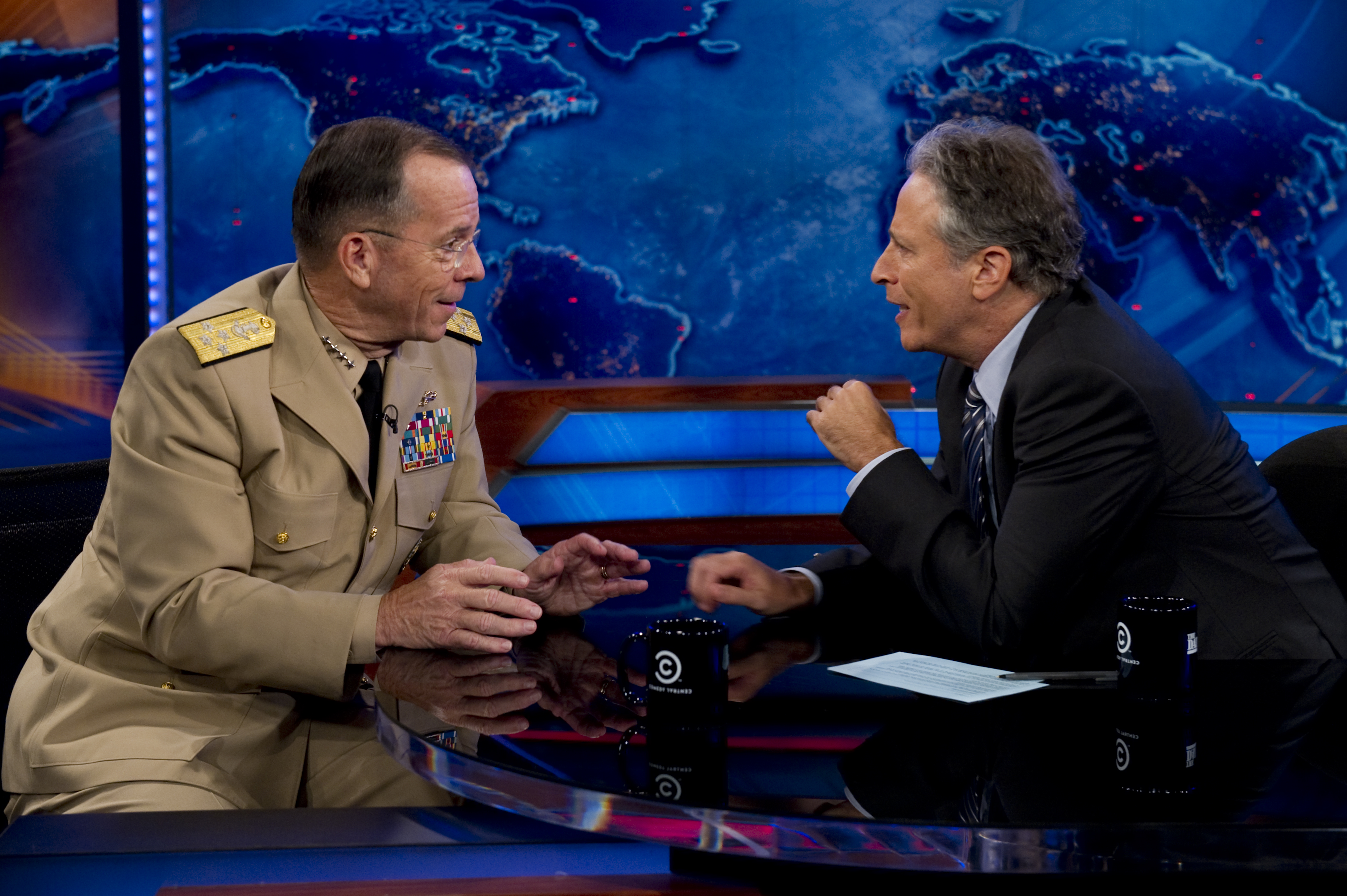 110912-N-TT977-080 U.S. Navy Adm. Mike Mullen, chairman of the Joint Chiefs of Staff is interviewed by The Daily Show's Jon Stewart, Sept. 12, 2011. The appearance was Mullen's third visit to the show and his first after having Stewart accompany him on a USO troop visit to Afghanistan in July of this year. (DoD photo by Mass Communication Specialist 1st Class Chad J. McNeeley/Released)